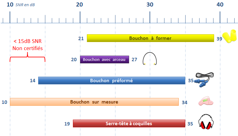 Attenuation ranges of different models of hearing protectors according to the category they belong